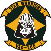 Insignia of the U.S. Navy Electronic Attack Squadron 209 (VAQ-209) "Star Warriors". The insignia was approved on 26 October 1978.